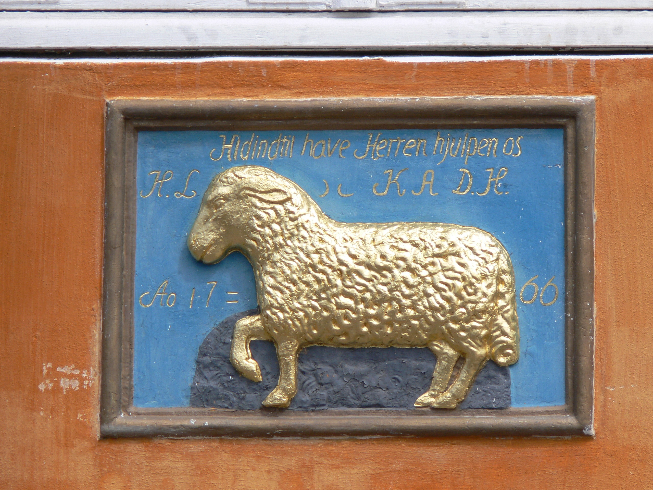 Nyhavn, Copenhagen. House sign ( 1766 ) showing a lamb of god.